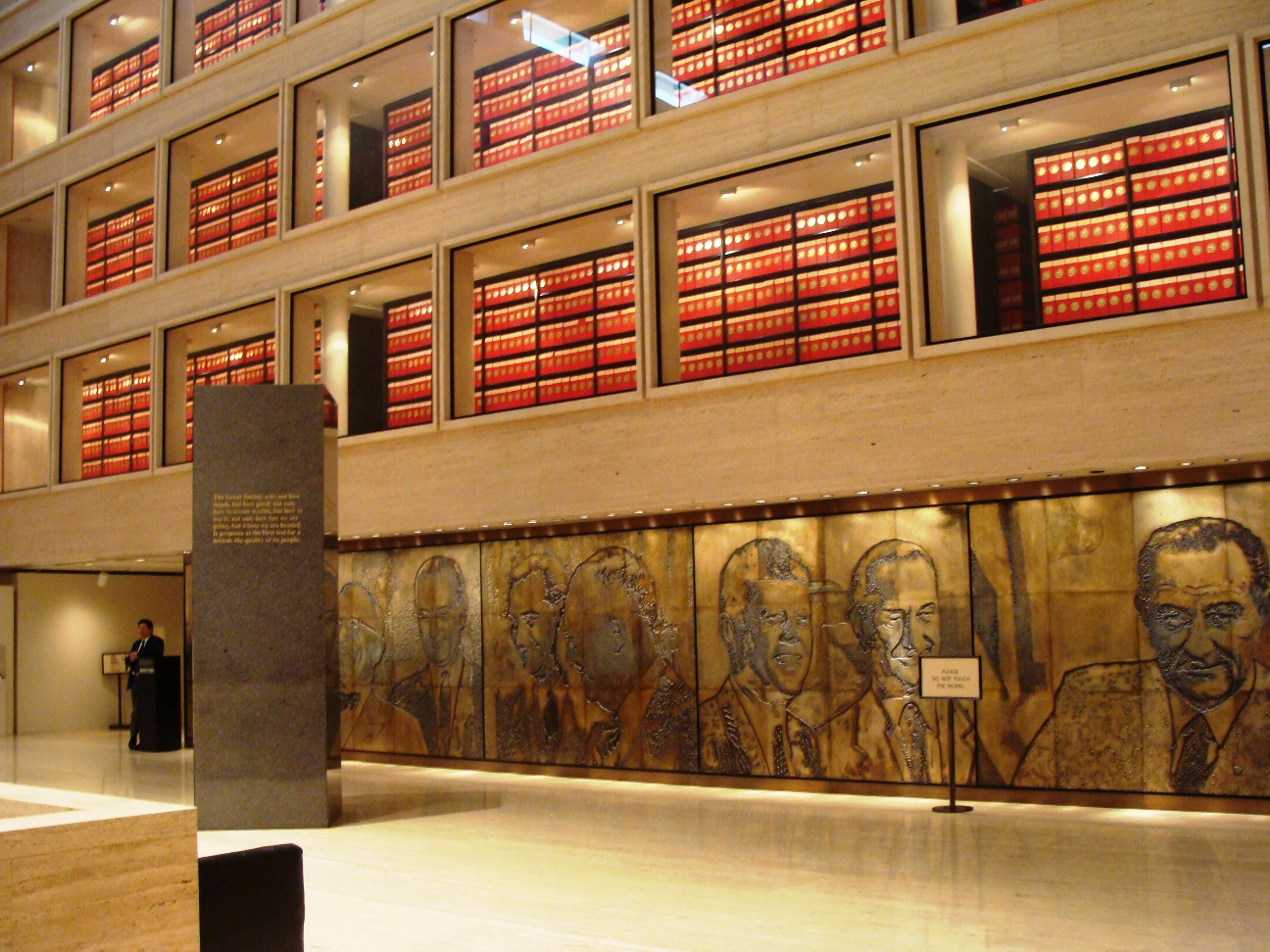 Lyndon Baines Johnson Library and Museum, interior